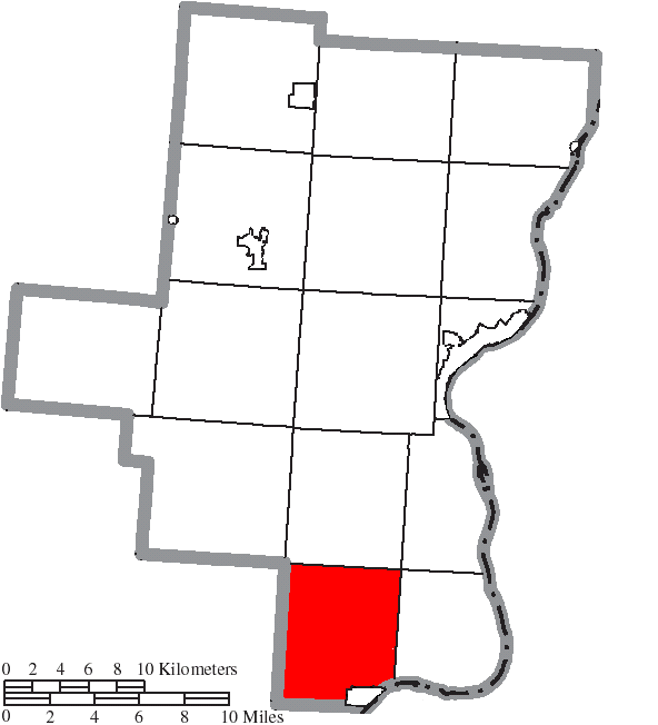 Map of the municipal and township boundaries of Gallia County, Ohio, United States, as of the 2000 census, with the location of Guyan Township highlighted. Township borders are shown only in unincorporated areas in order to differentiate incorporated and unincorporated areas more clearly.